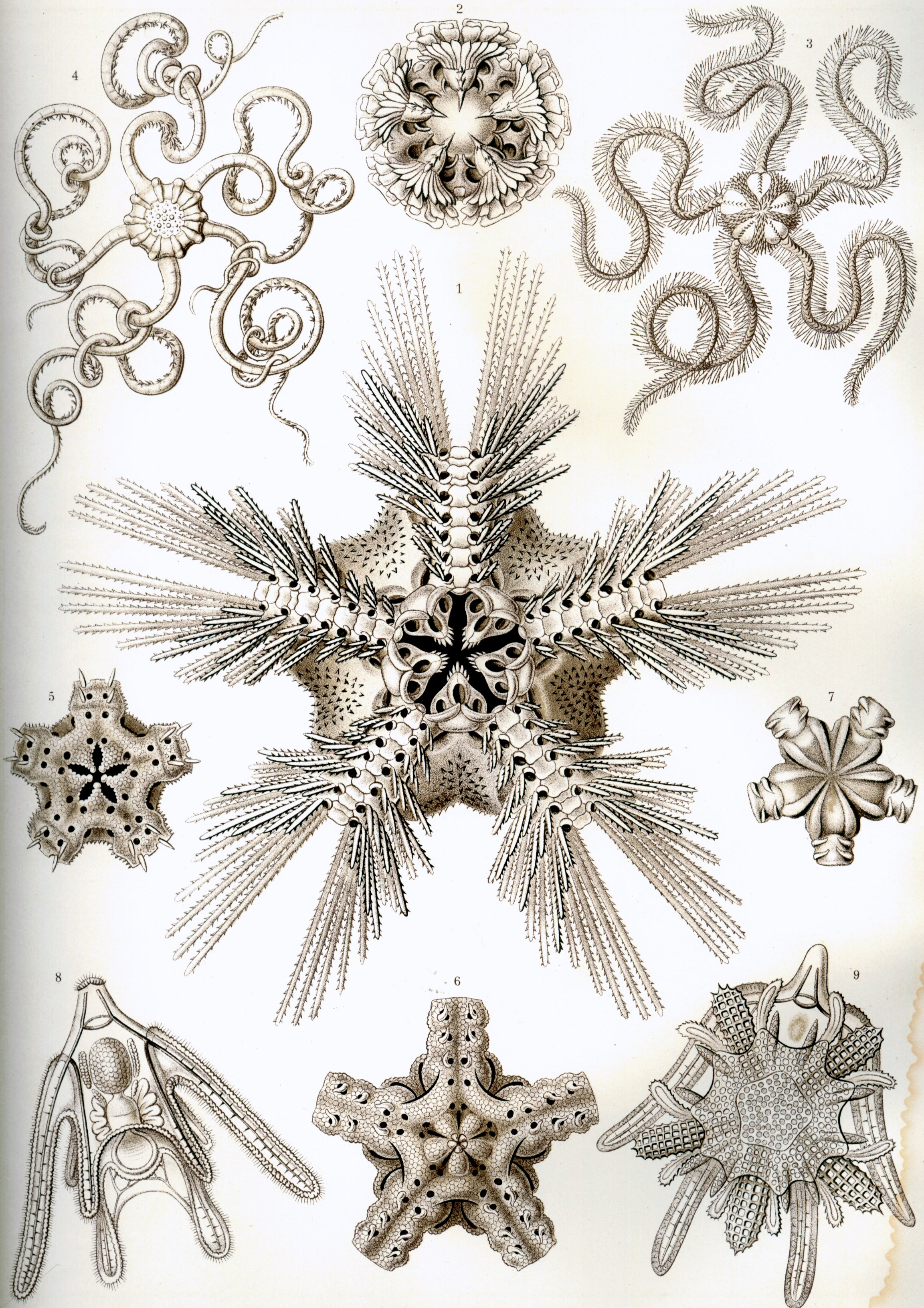 (center): Ophiothrix capillaris (Lyman) = Macrophiothrix capillaris (Lyman, 1879), adult, underside (top center): Ophiotholia supplicans (Lyman) = Ophiotholia supplicans Lyman, 1880, adult, underside (top right): Ophiocoma rosula (Link) = Ophiothrix fragilis (Abildgaard, 1789), adult, underside (top left): Astroschema brachiatum (Lyman) = Asteroschema brachiatum Lyman, 1879, adult, upperside (center left): Astroschema horridum (Lyman) = Asteroschema horridum Lyman, 1879, adult, underside (bottom center): Astroschema rubrum (Lyman) = Asteroschema rubrum Lyman, 1879, adult, underside (center right): Ophiocreas oedipus (Lyman) = Ophiocreas oedipus Lyman, 1879, adult, upperside (bottom left): Pluteus paradoxus (Johannes Müller) = Ophiura albida Forbes, 1839, young pluteus larva (bottom right): Pluteus paradoxus (Johannes Müller) = Ophiura albida Forbes, 1839, older pluteus larva